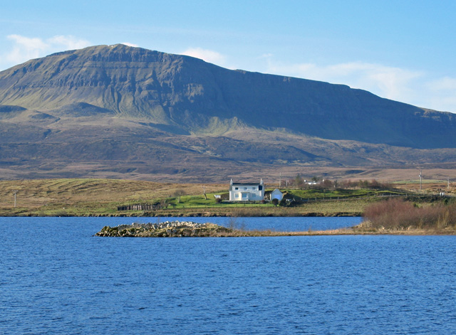 Dun Grianan The remains of Dun Grianan sit on the extremity of a low promontory in Loch Mealt. Most of the building has been removed and what remains was once used as a sheep fank. The mountain in the background is Ben Edra.